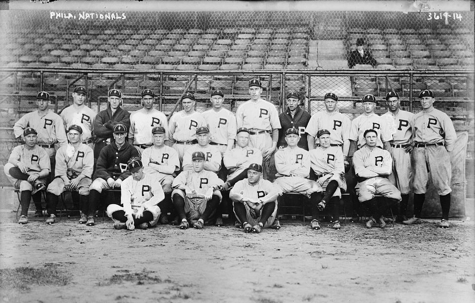 Bain News Service, publisher. [Philadelphia NL World Series team (baseball)] 1915 Oct. 4. 1 negative : glass ; 5 x 7 in. or smaller. Notes: Original data provided by the Bain News Service on the negatives or caption cards: Philadelphia Nationals, 10/4/15. Corrected title based on research by the Pictorial History Committee, Society for American Baseball Research, 2006. Forms part of: George Grantham Bain Collection (Library of Congress). Format: Glass negatives. Repository: Library of Congress, Prints and Photographs Division, Washington, D.C. 20540 USA, General information about the Bain Collection is available at Higher resolution image is available (Persistent URL): Call Number: LC-B2- 3619-14